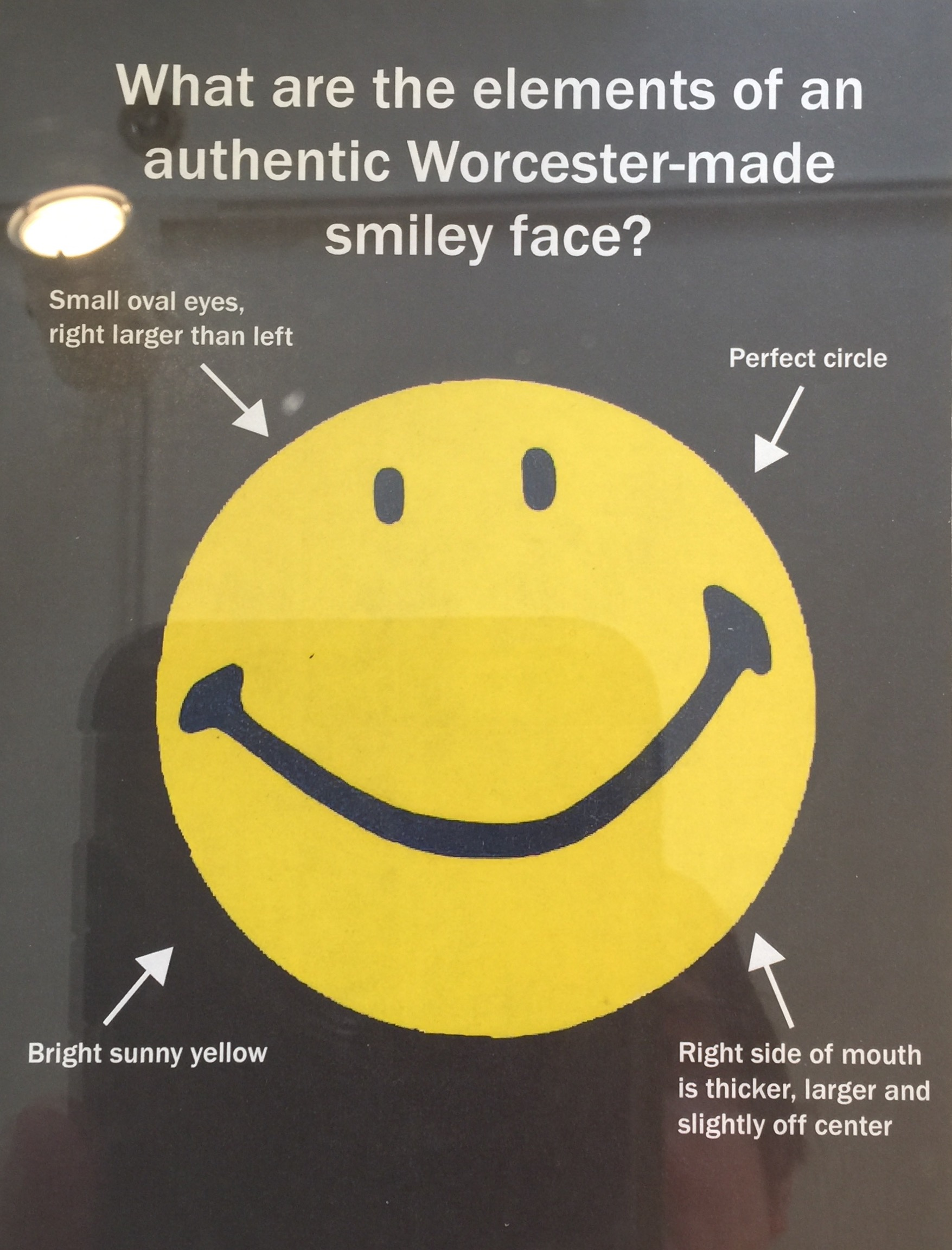 Authentic Worcester-made smiley face, Harvey Ball. From the Worcester Historical Museum, in Worcester, Massachusetts